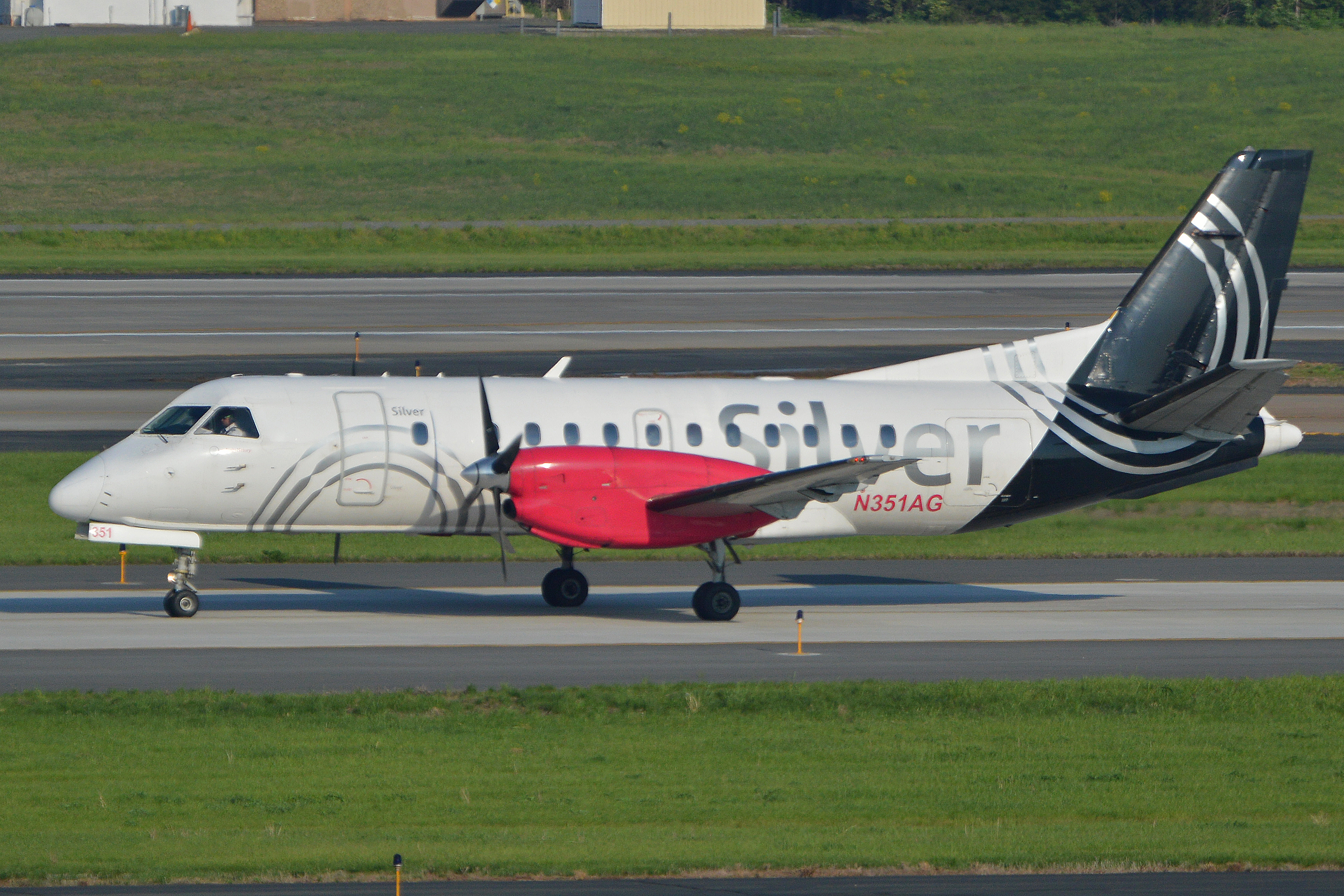 c/n 445. Built 1998. Washington Dulles Airport, Virginia, USA. 07-5-2015